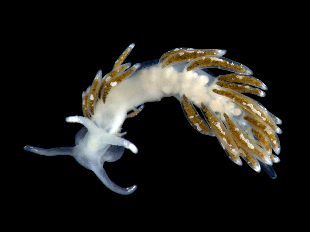 The nudibranch Cuthona pustulata, Strangford Lough, Co Down, Northern Ireland.